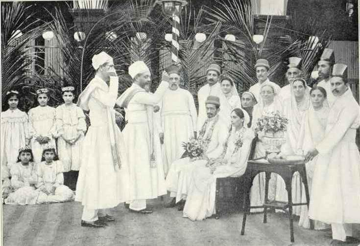 A Parsee Wedding